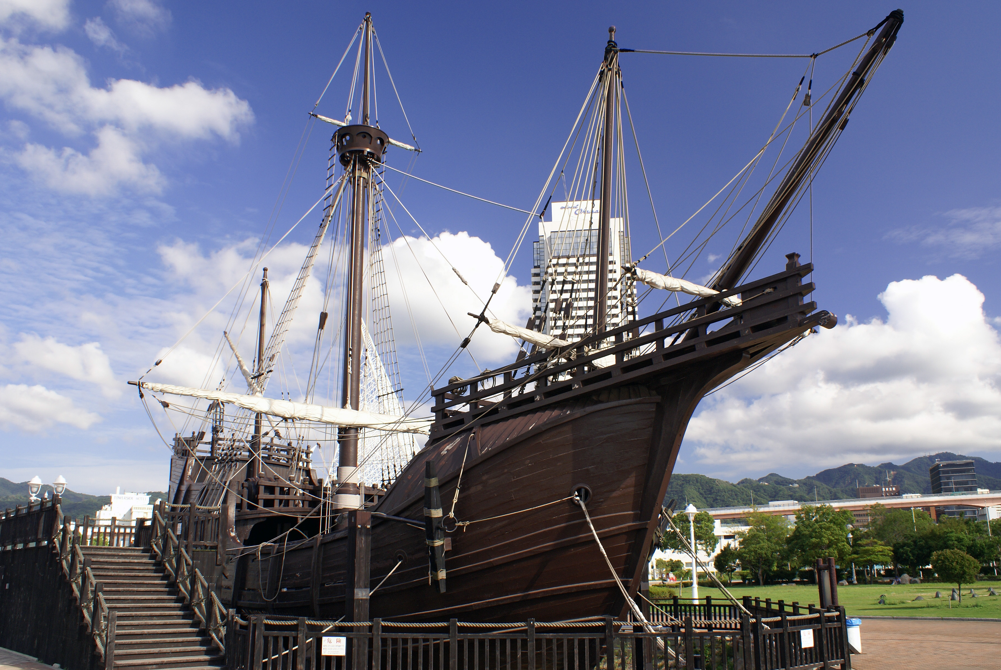 Santa Maria (replica) of Kobe Maritime Museum in Kobe, Hyogo, Japan